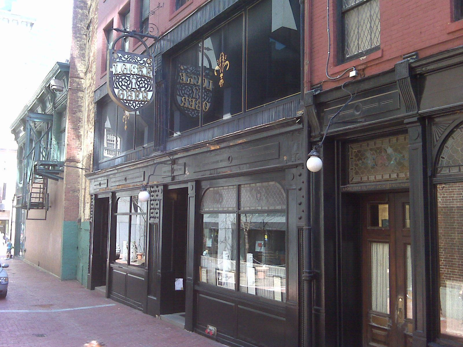 Photograph of historic Locke-Ober Restaurant in Boston, the third oldest restaurant in the city